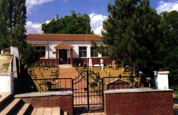 Outside view, image from the Fossil Exhibition, Nostimo, West Macedonia, Greece